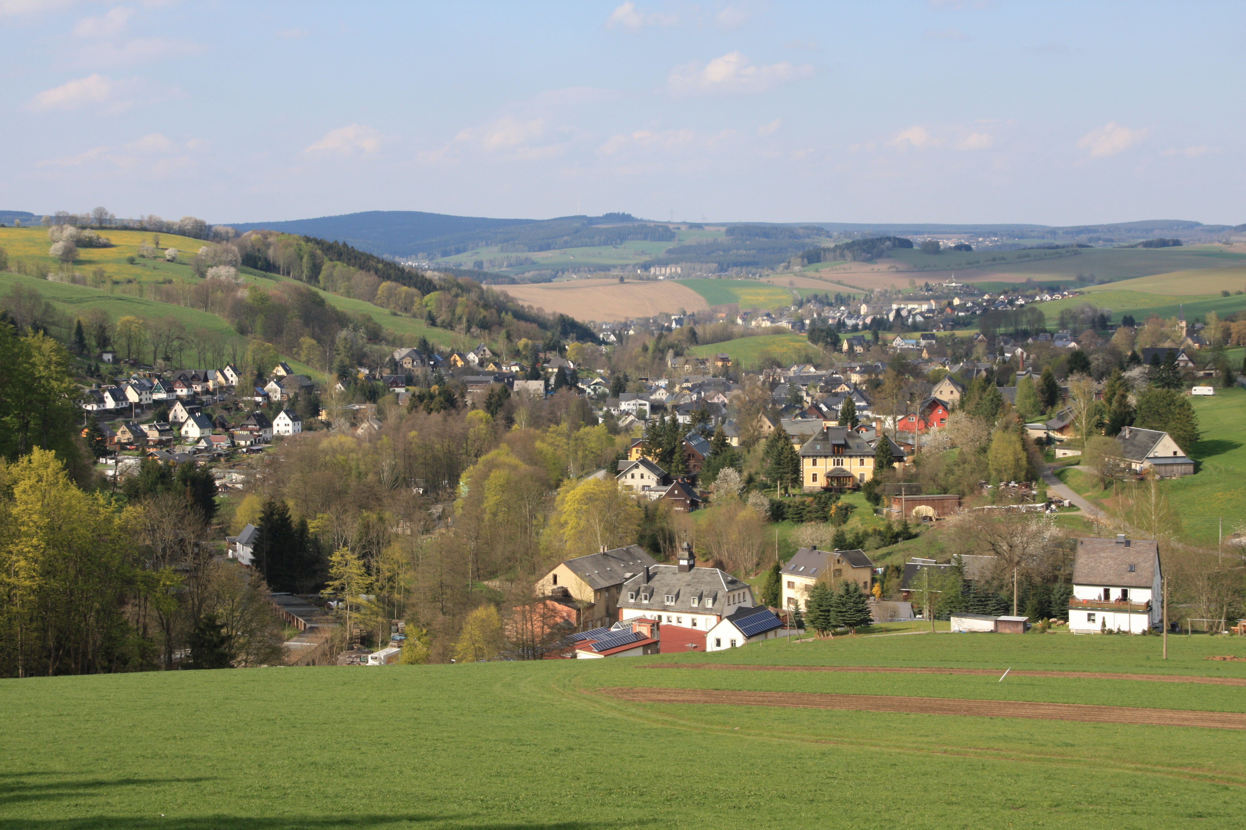 Pöhla (Schwarzenberg), view from south